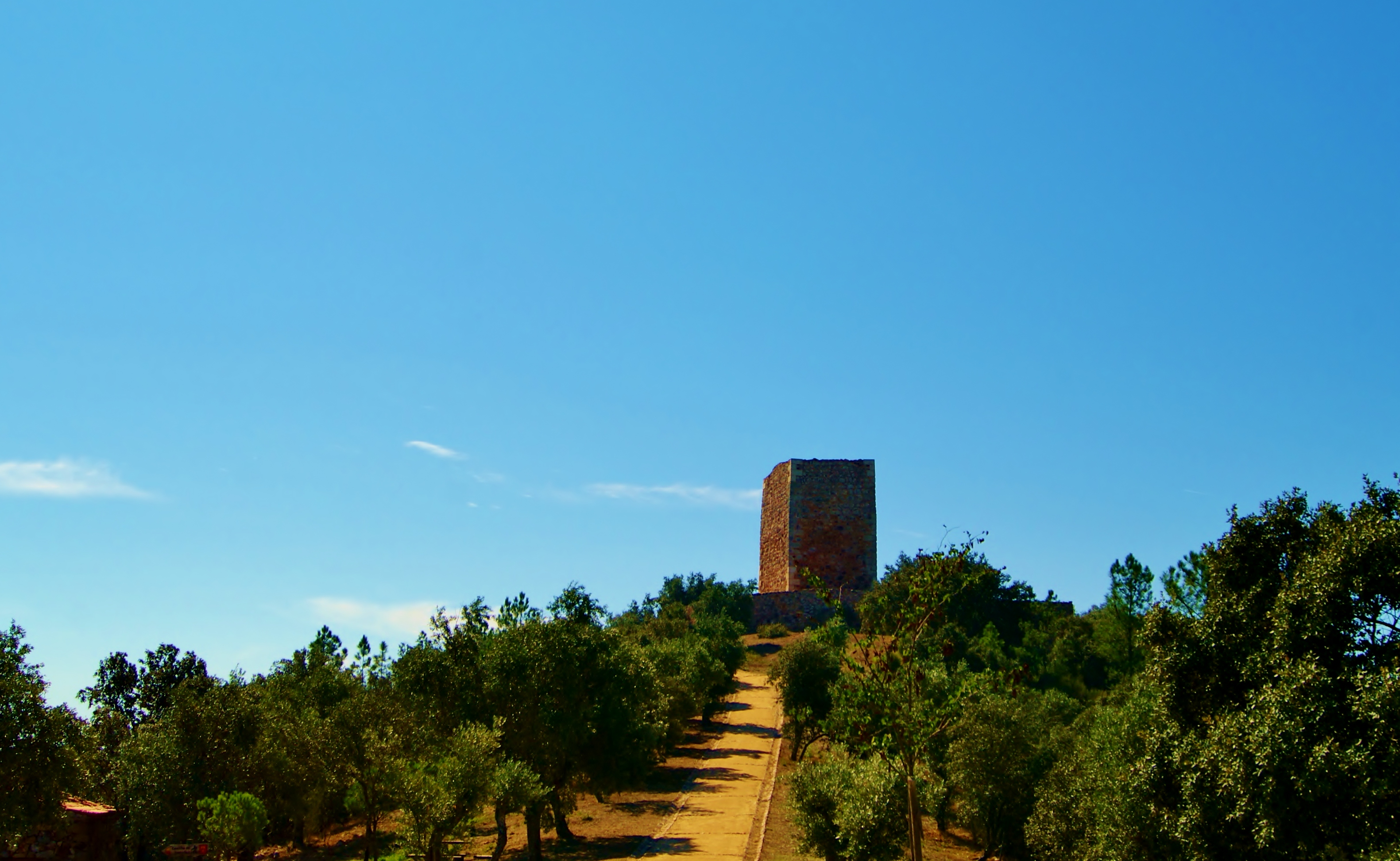 This monument is classified as Imóvel de Interesse Público. This file was uploaded for Wiki Loves Monuments in Portugal with the unique identifier 72989.